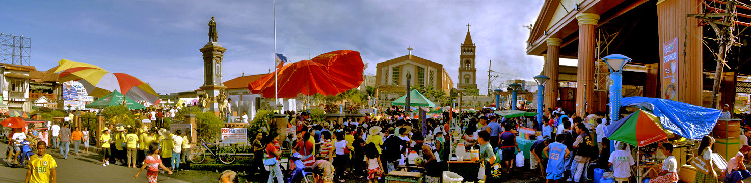 Panorama shot of the Biñan Town Plaza